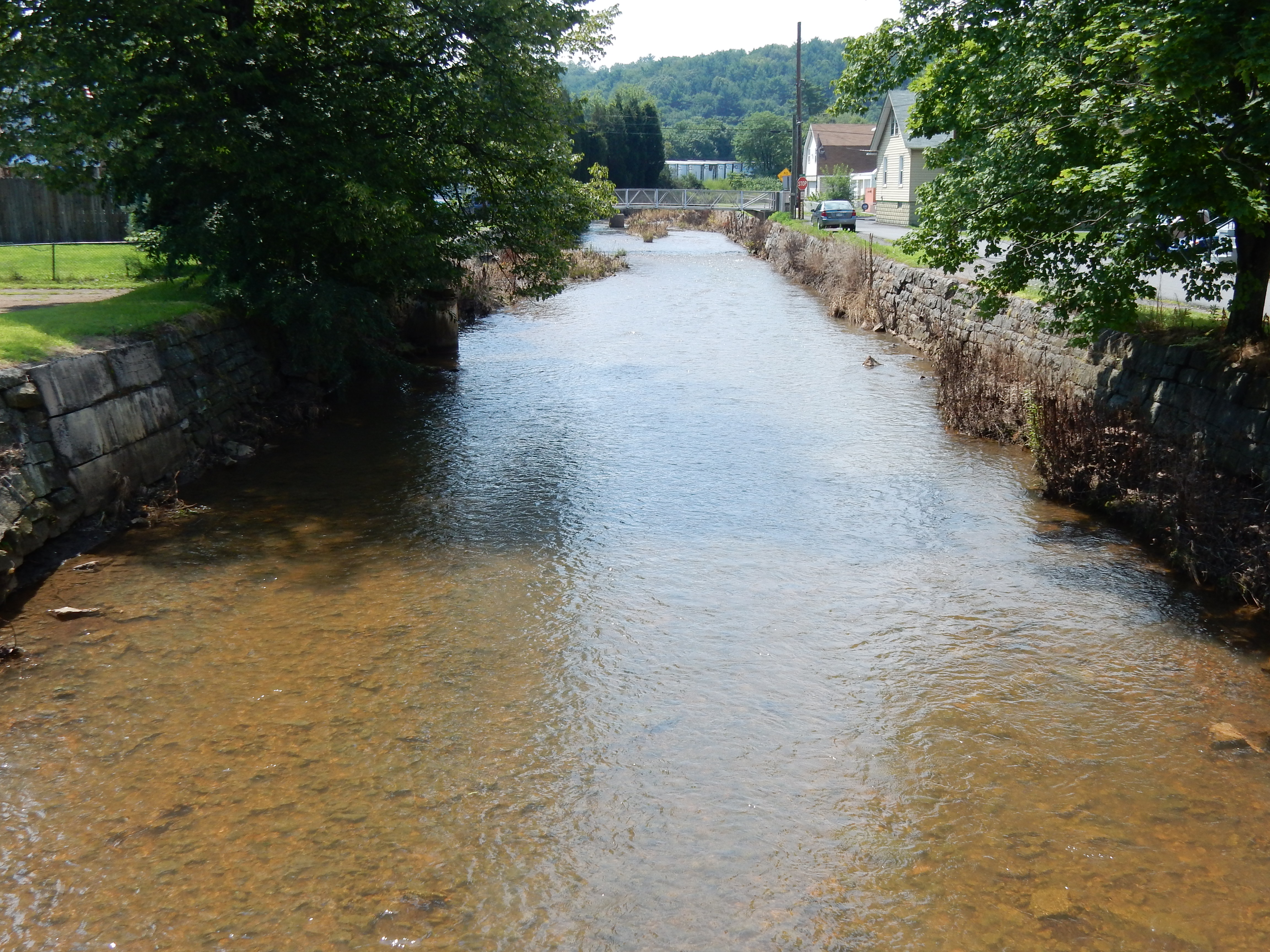 Mill Creek in Port Carbon, Schuylkill County, Pennsylvania. View from Washington St. Bridge, looking west.